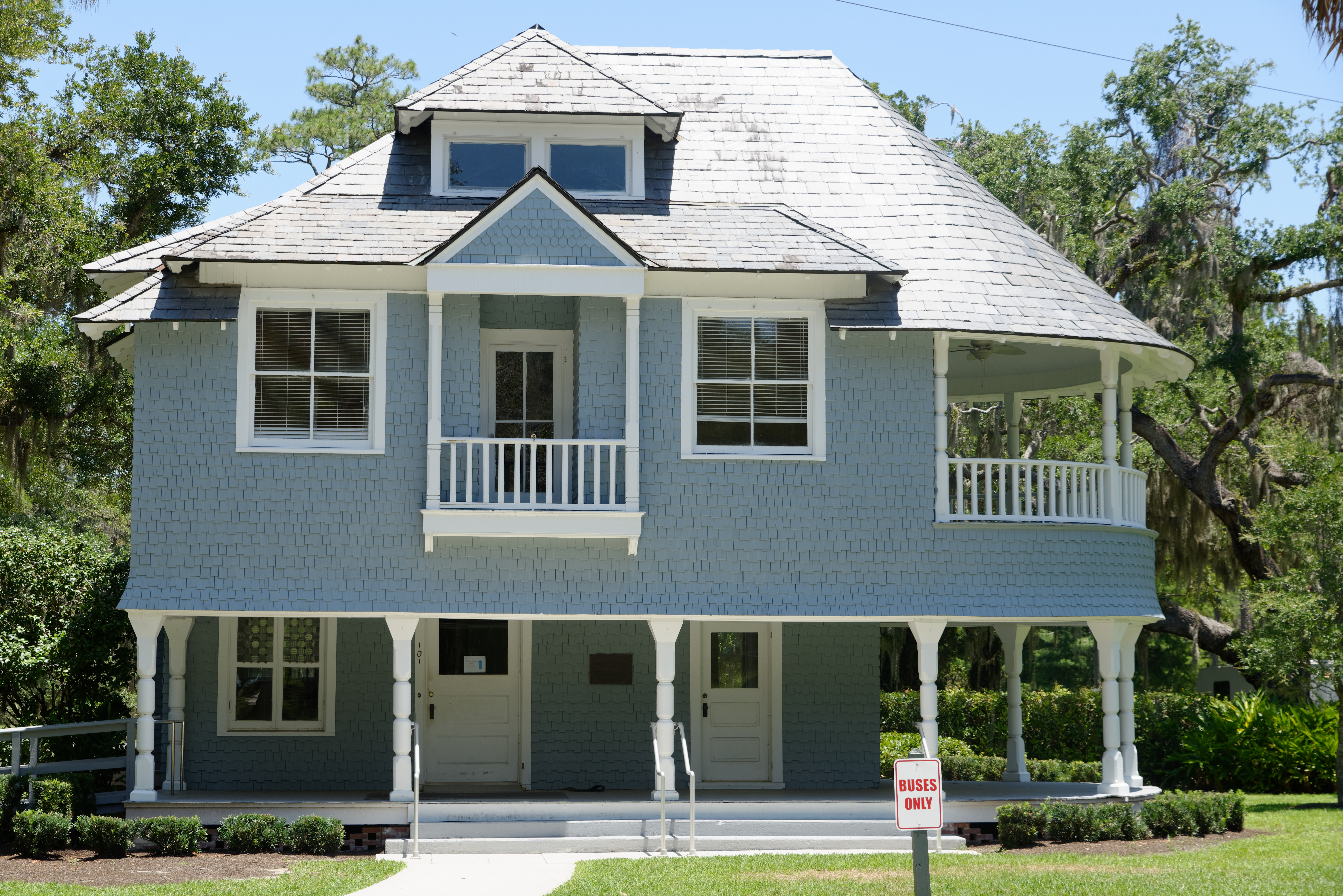 Furness Cottage, Jekyll Island Club Historic District, Jekyll Island, Georgia, U.S. This is the old infirmary.